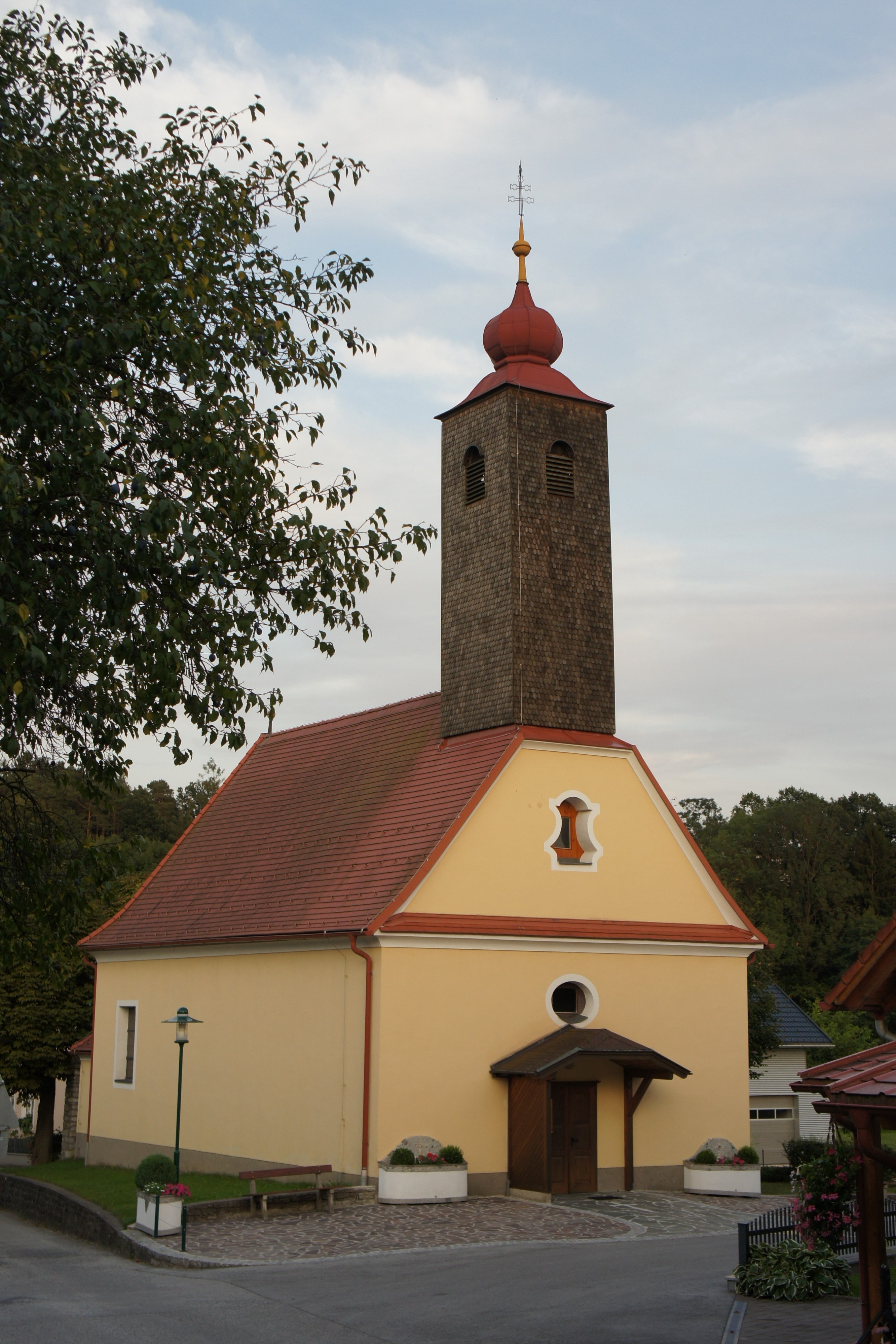 Chapel Saint Sebastian, Ehrenschachen, Friedberg, Austria